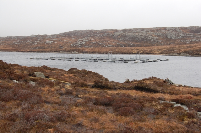 Loch Langabhat Salmon Farm